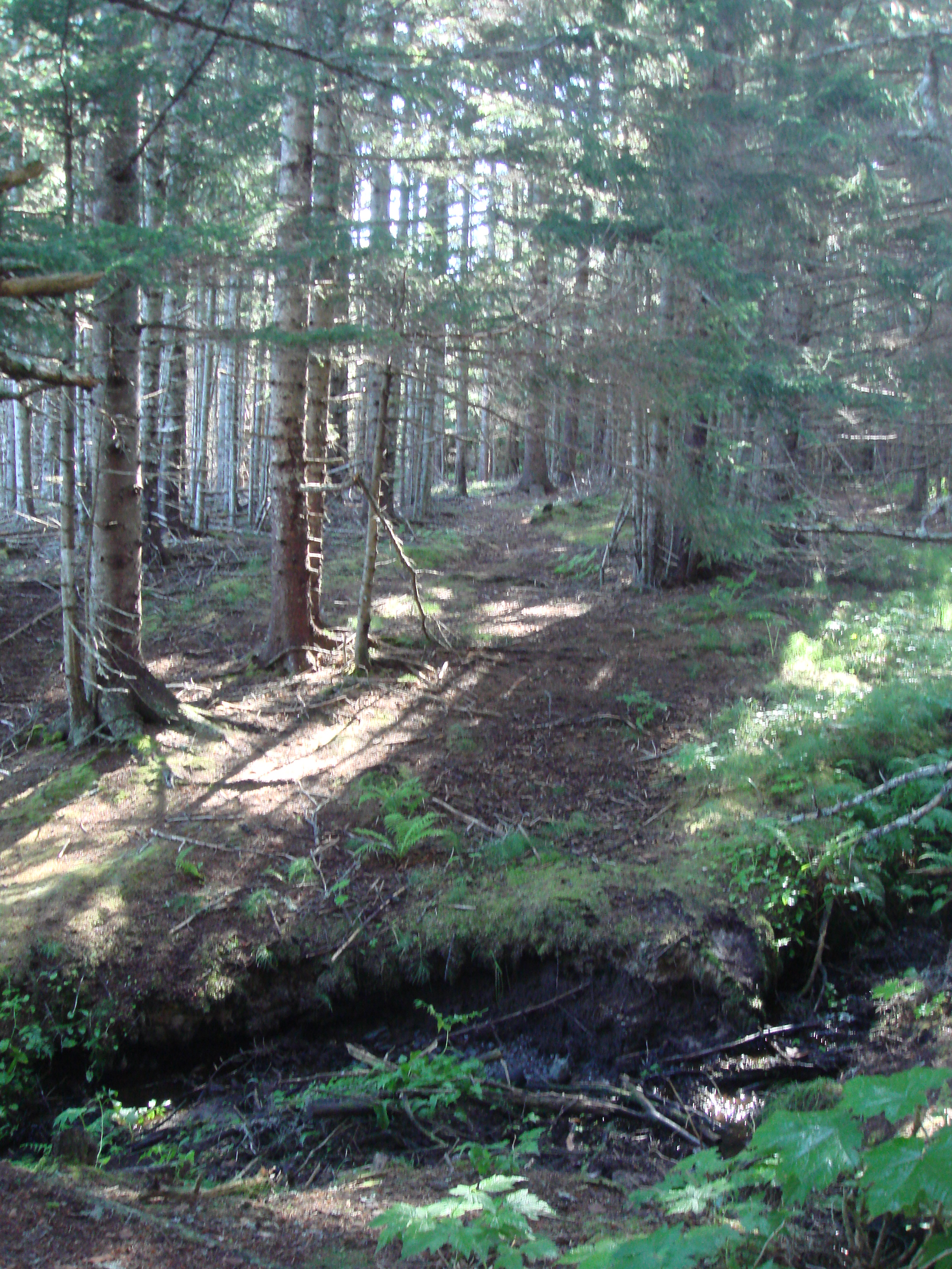 A coastal hiking trail on Raspberry Island leads through an old growth forest, wildflower fields and salmonberry bushes.